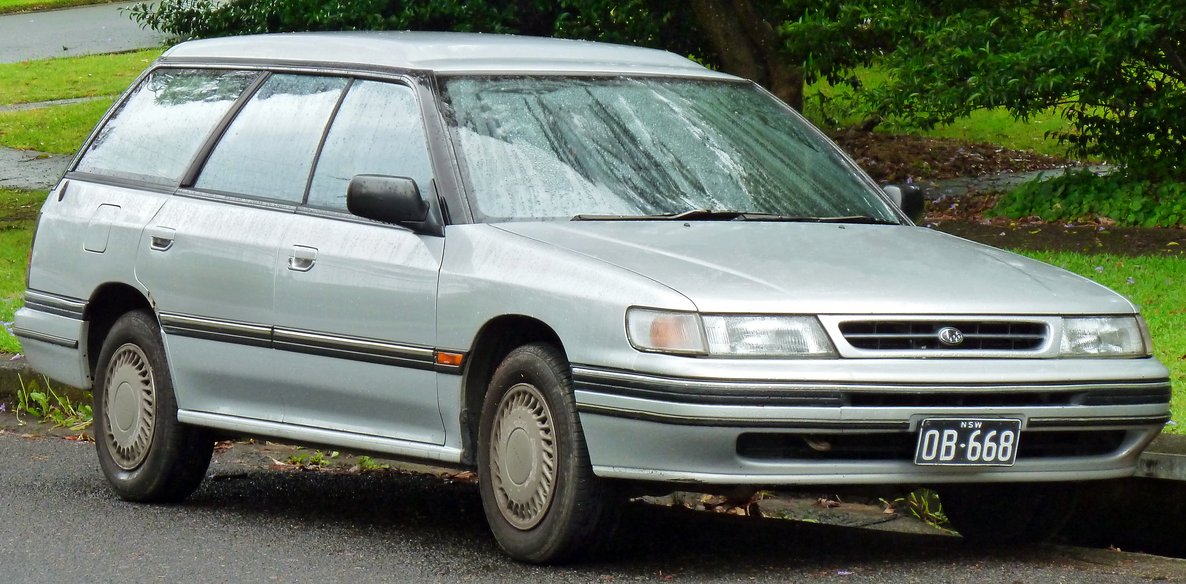 1993 Subaru Liberty (BF6) LX 2WD station wagon. Photographed in Roseville, New South Wales, Australia.